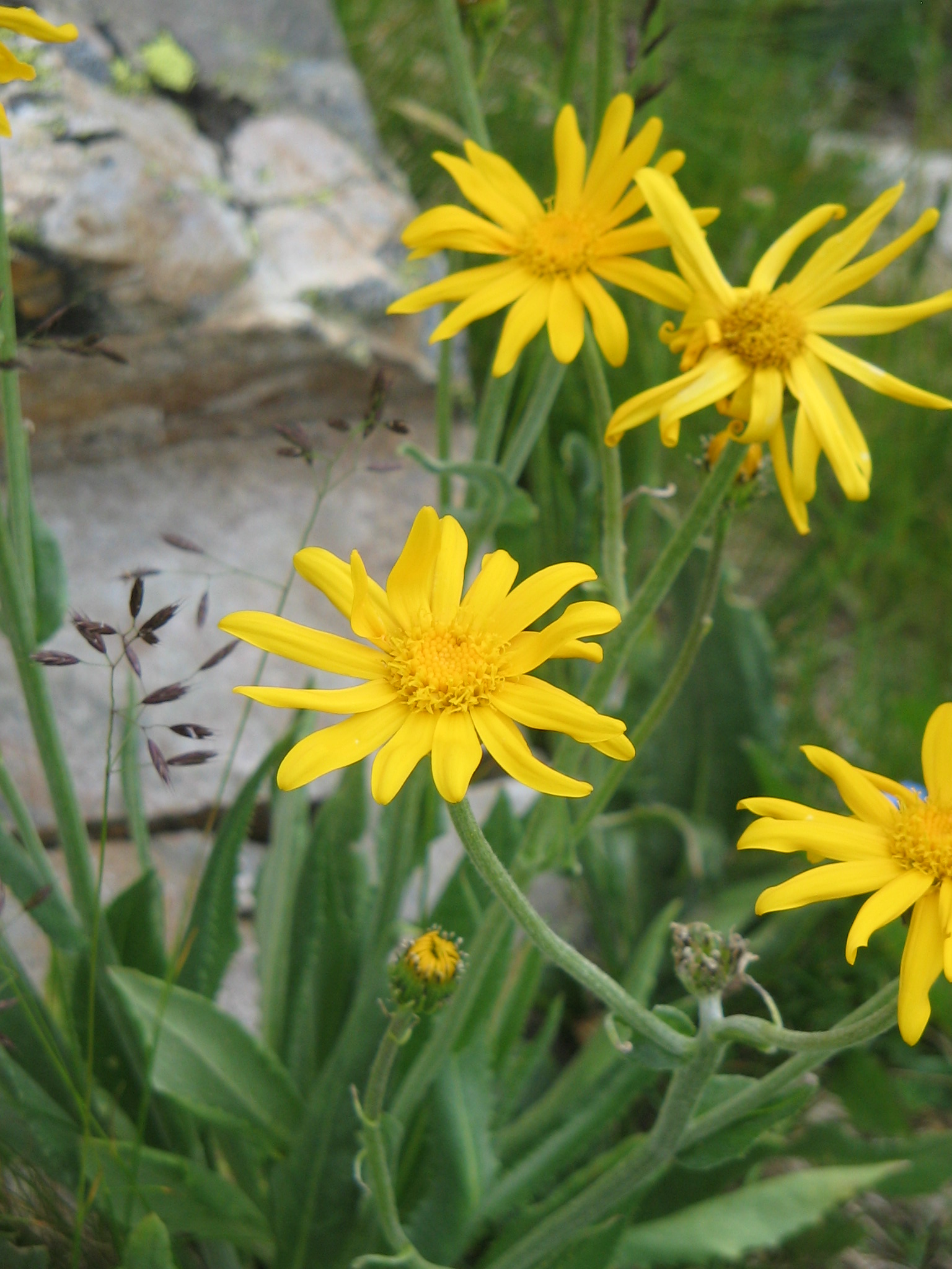 Senecio doronicum